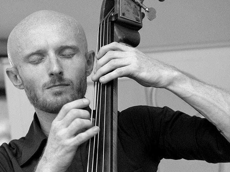 Adam Pultz Melbye